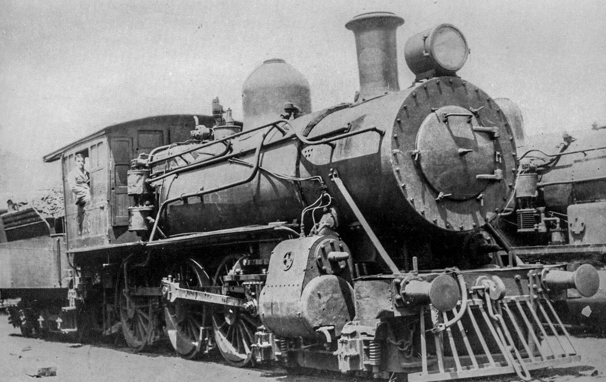 NSWGR O.446 Class Locomotive 4-6-0